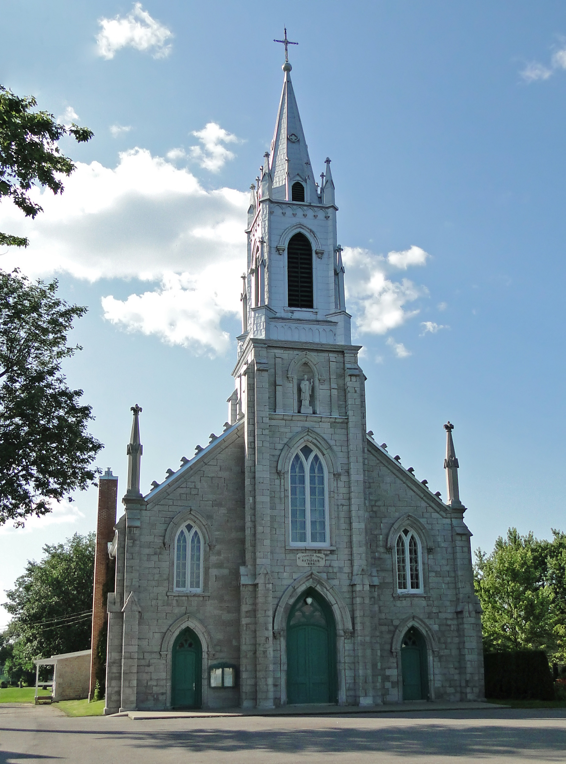 Saint-François-Xavier Church, Batiscan, province of Quebec, Canada